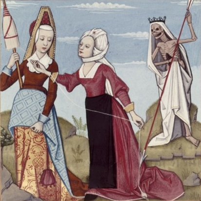 The Moirae.